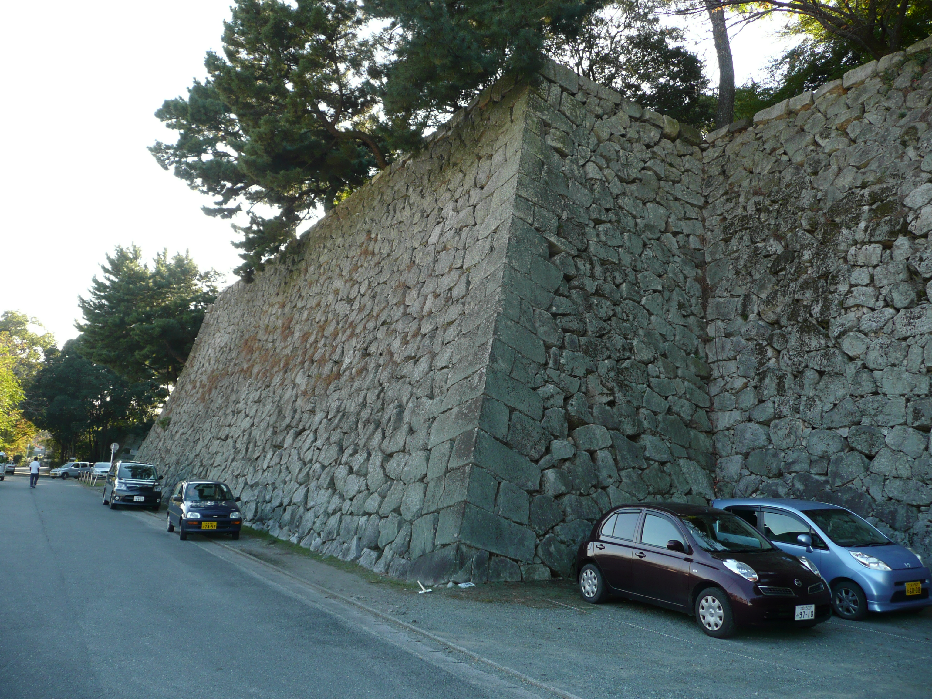 久留米城の月見櫓の石垣